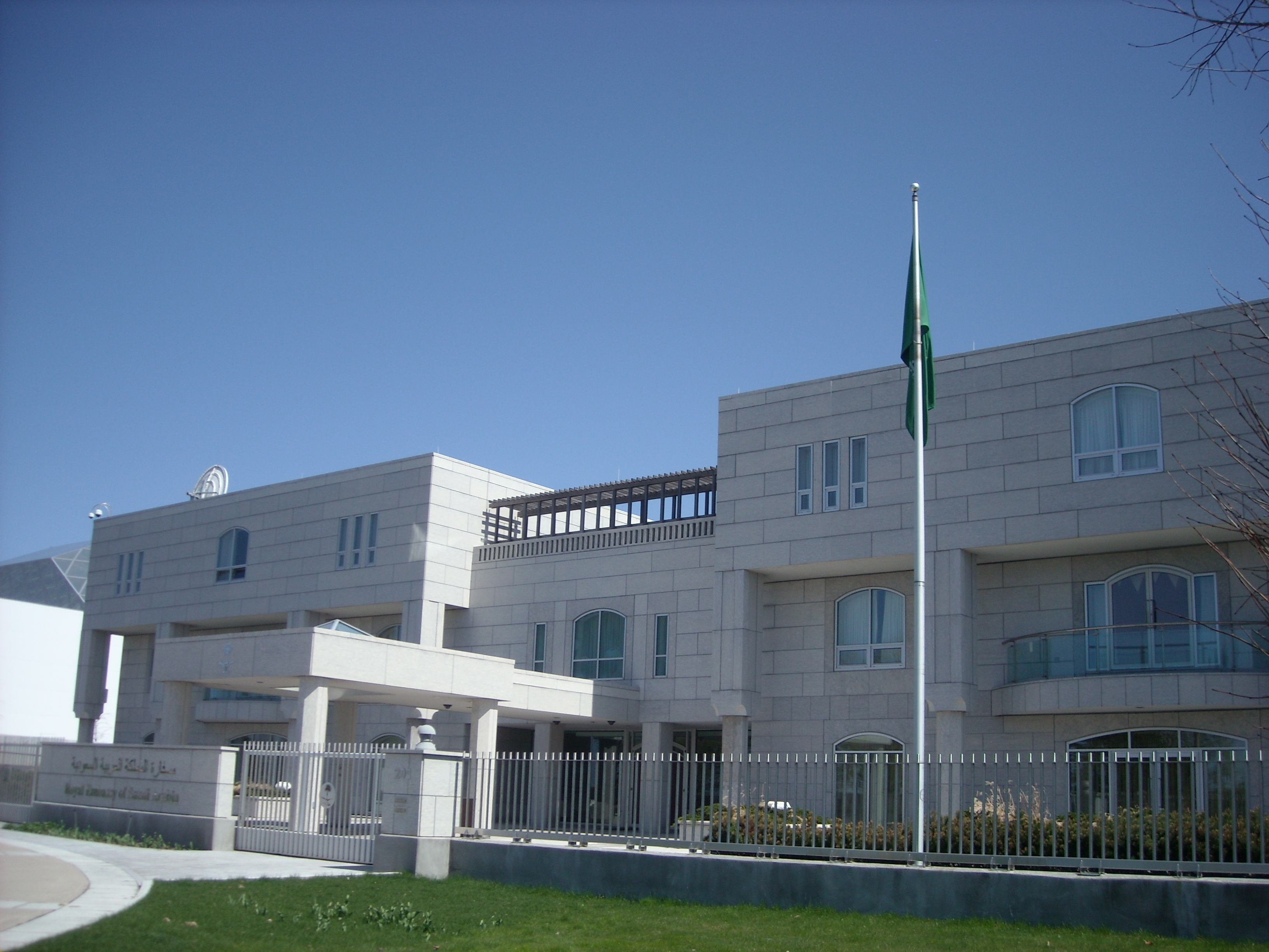 The Embassy of Saudi Arabia in Ottawa, the Kingdom of Saudi Arabia's diplomatic mission to Canada.